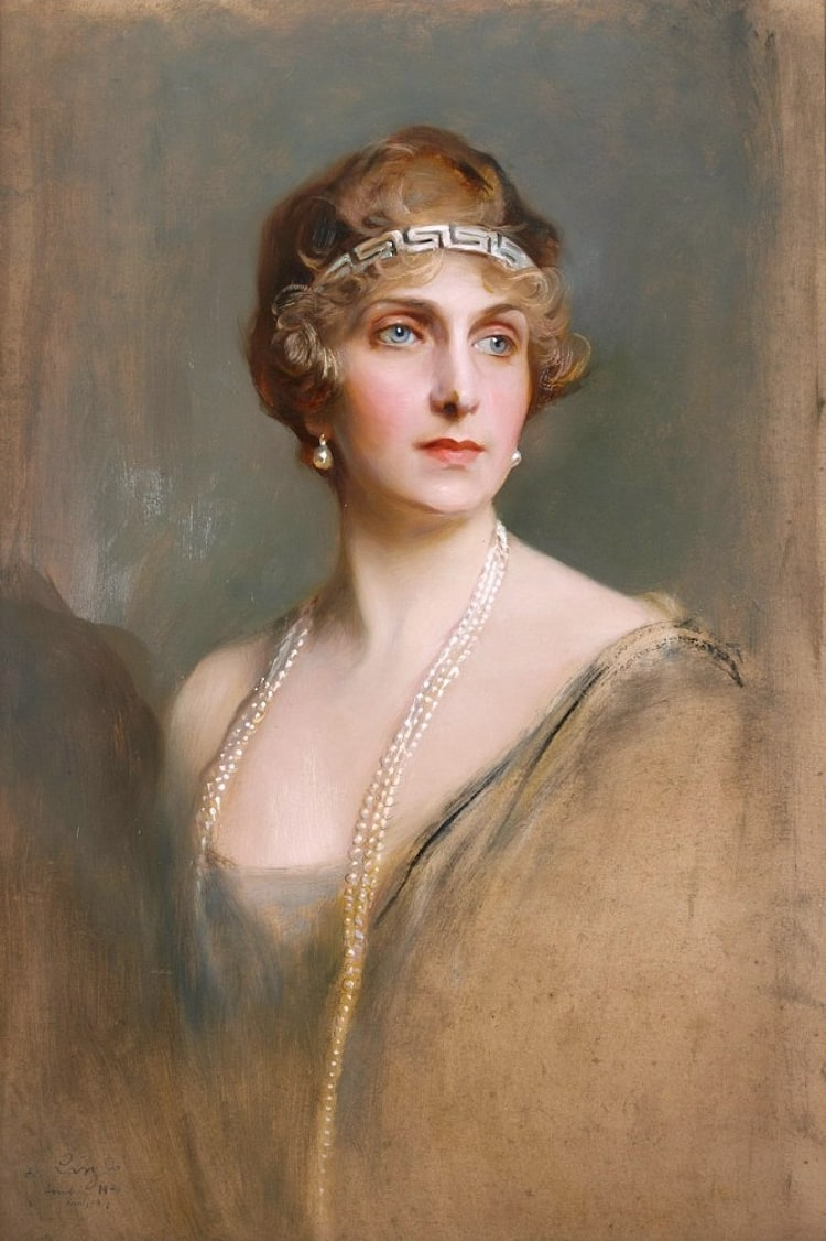 Portrait of Victoria Eugenie of Battenberg (1887-1969)